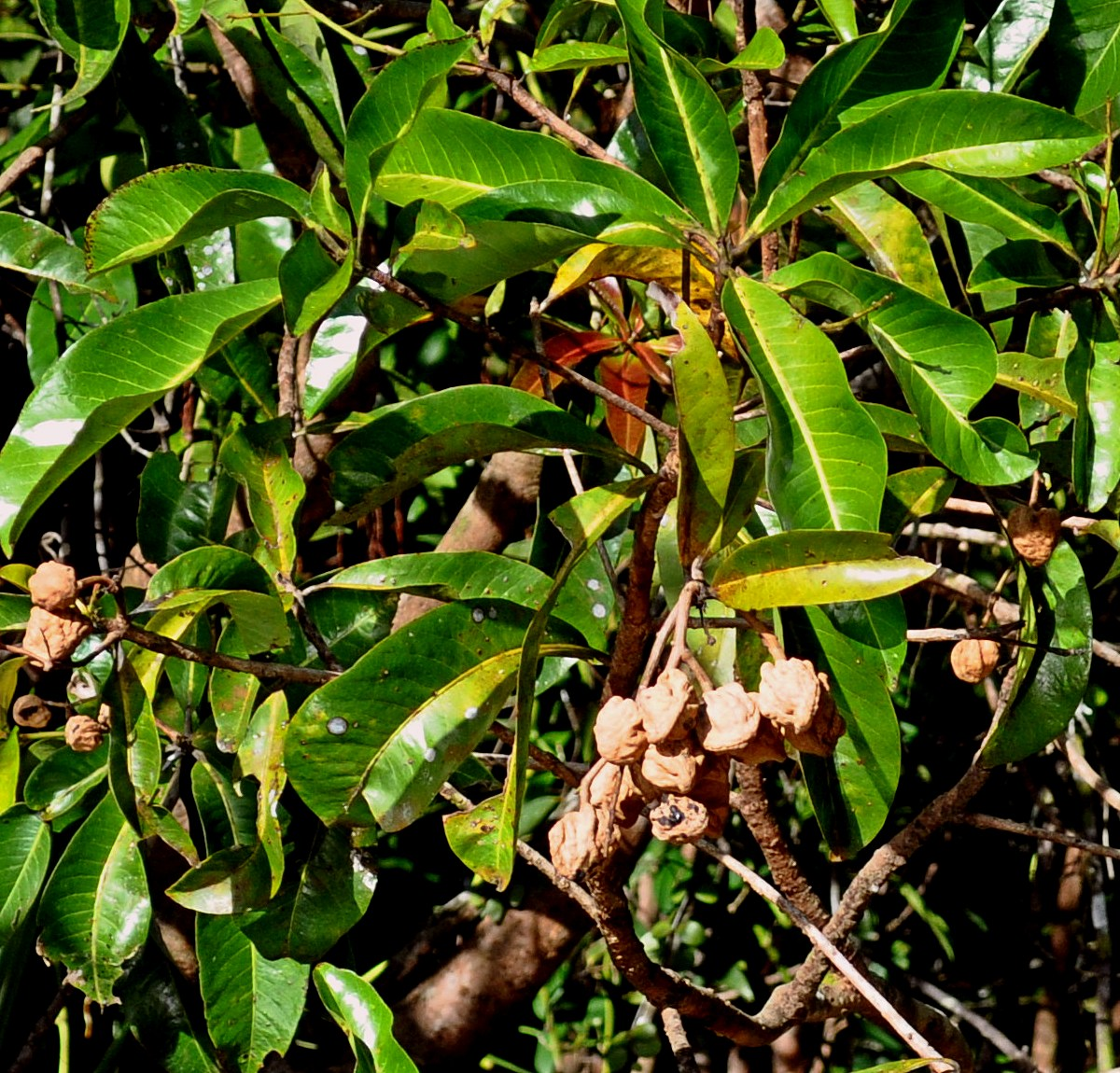 Gluta velutina branch with fruits; at the riverbank of Sambas Kecil River, West Kalimantan, Indonesia